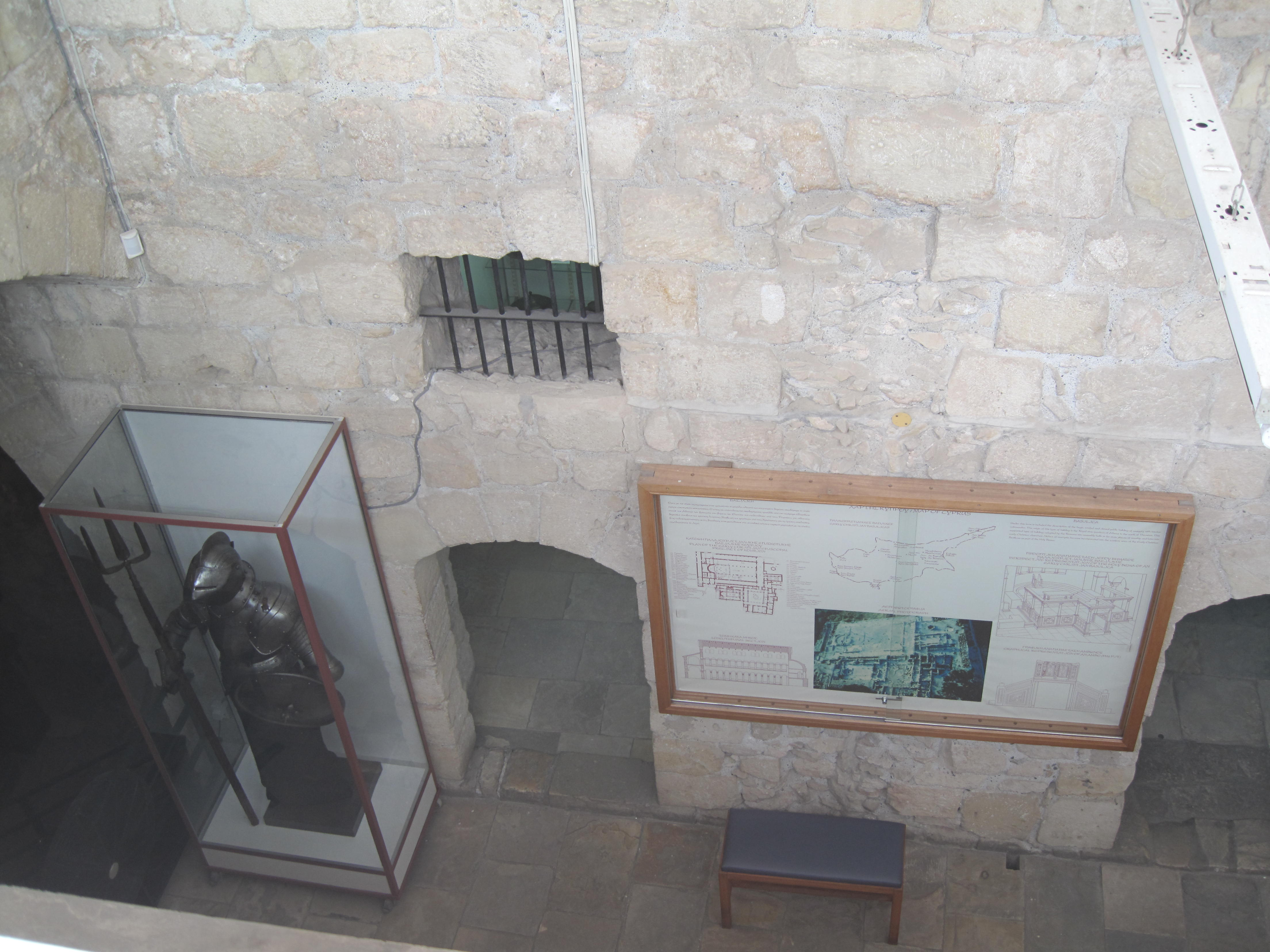 The Medieval Castle of Limassol, Cyprus